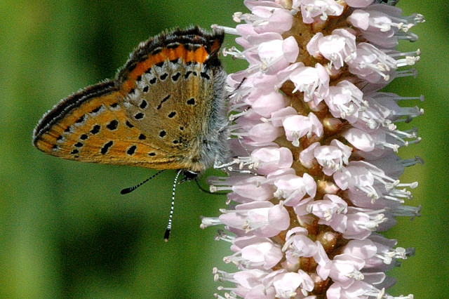 Lycaena helle from Commanster, Belgian High Ardennes .